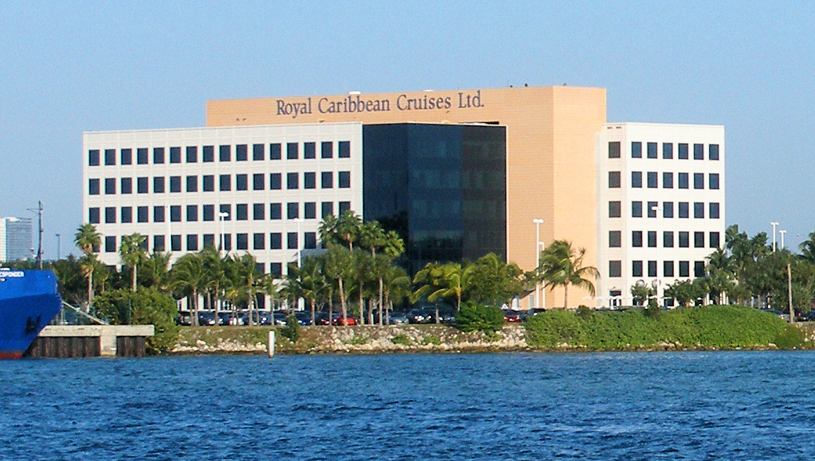 The headquarters of Royal Caribbean Cruises Ltd. in Miami.